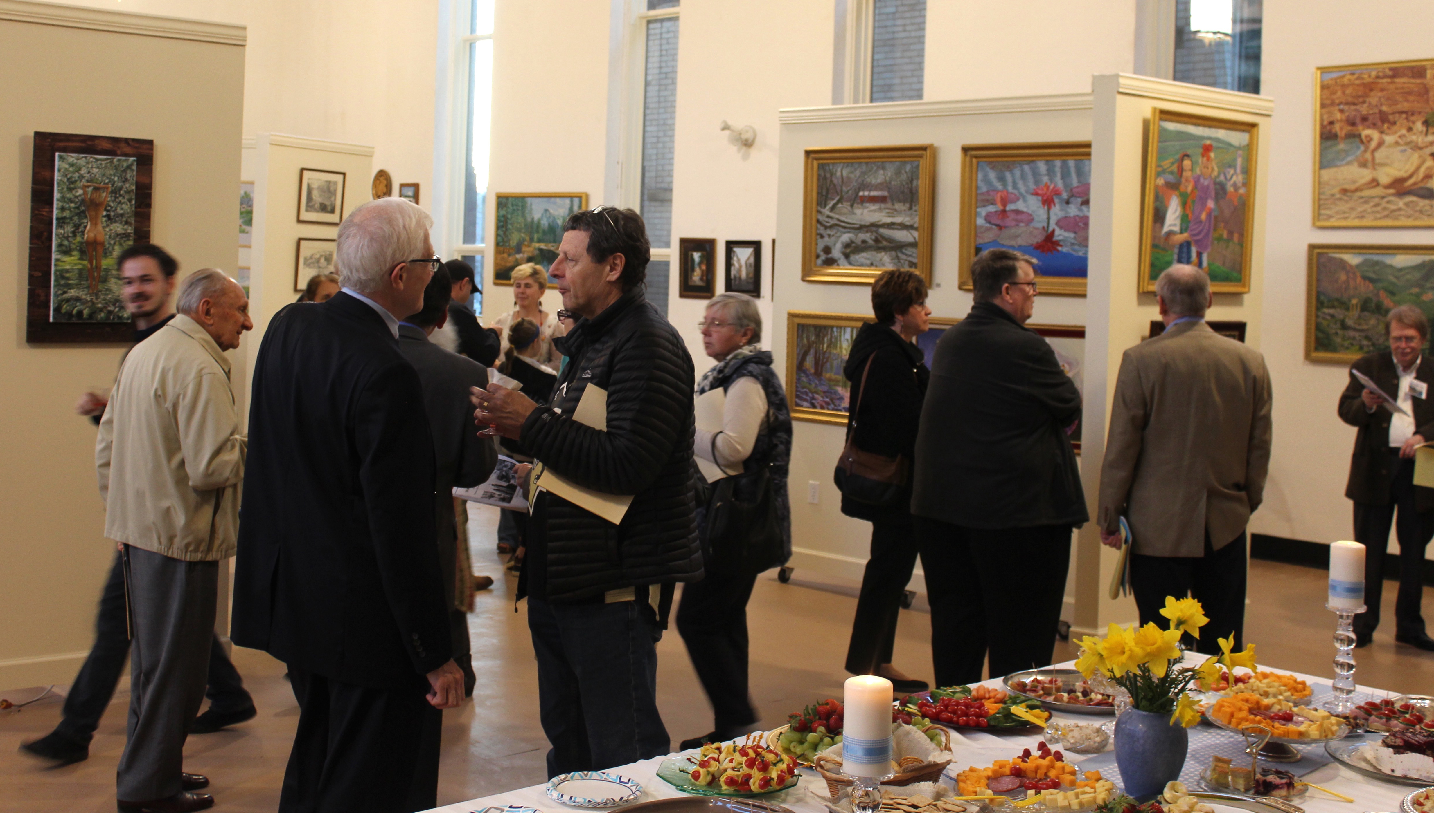 Exhibition at CRS Cultural Center